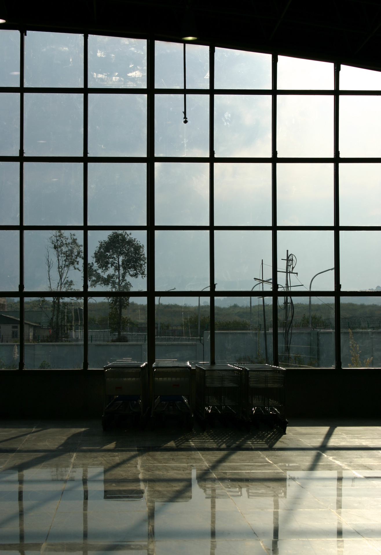 One half of the Shillong airport.